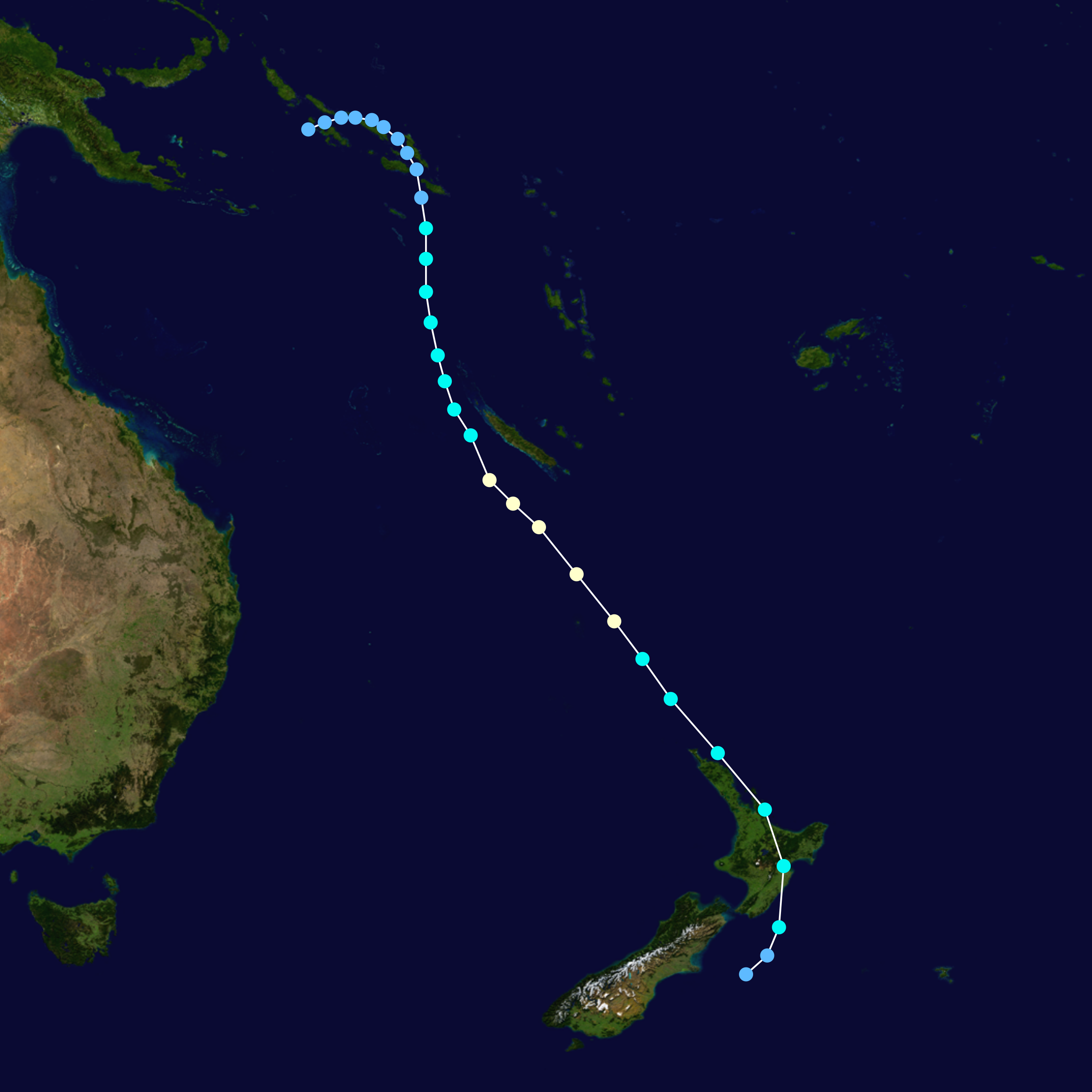 Track map of Severe Tropical Cyclone Giselle of the 1967-68 South Pacific cyclone season. The points show the location of the storm at 6-hour intervals. The colour represents the storm's maximum sustained wind speeds as classified in the Saffir-Simpson Hurricane Scale (see below), and the shape of the data points represent the nature of the storm, according to the legend below. Saffir–Simpson scale Tropical depression≤38 mph≤62 km/h Category 3111–129 mph178–208 km/h Tropical storm39–73 mph63–118 km/h Category 4130–156 mph209–251 km/h Category 174–95 mph119–153 km/h Category 5≥157 mph≥252 km/h Category 296–110 mph154–177 km/h Unknown Storm type Tropical cyclone Subtropical cyclone Extratropical cyclone / Remnant low / Tropical disturbance